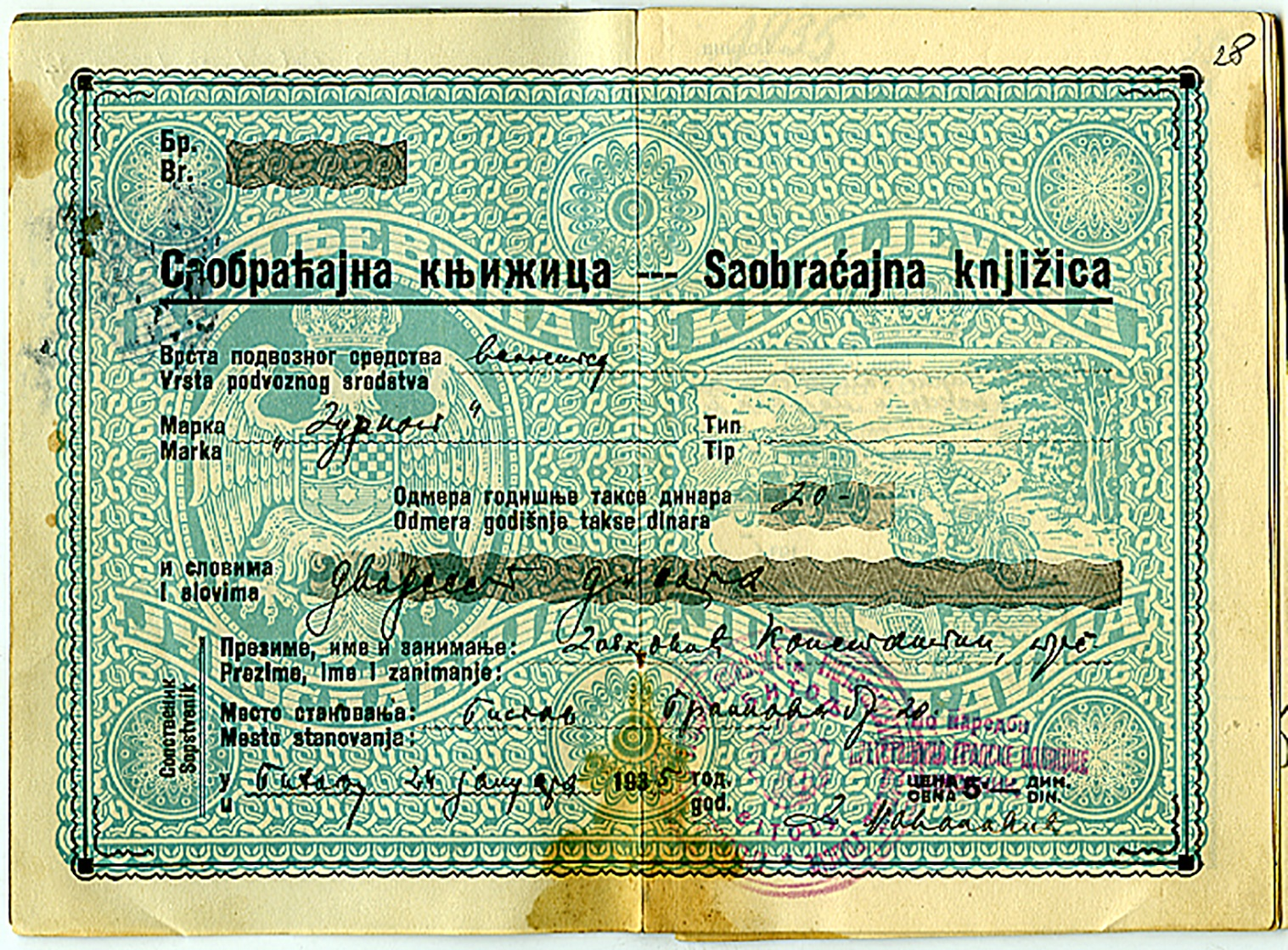 Driving license for bike, released in 1935. This media file is produced by Wikipedian in Residence in Category:Wikipedian in Residence at DARM in 2016.